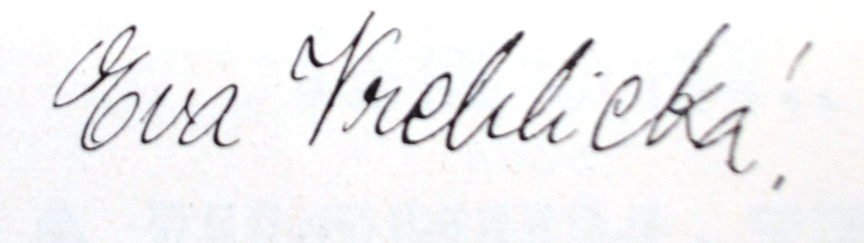 Signature of Eva Vrchlická (1888-1969), Czech actress